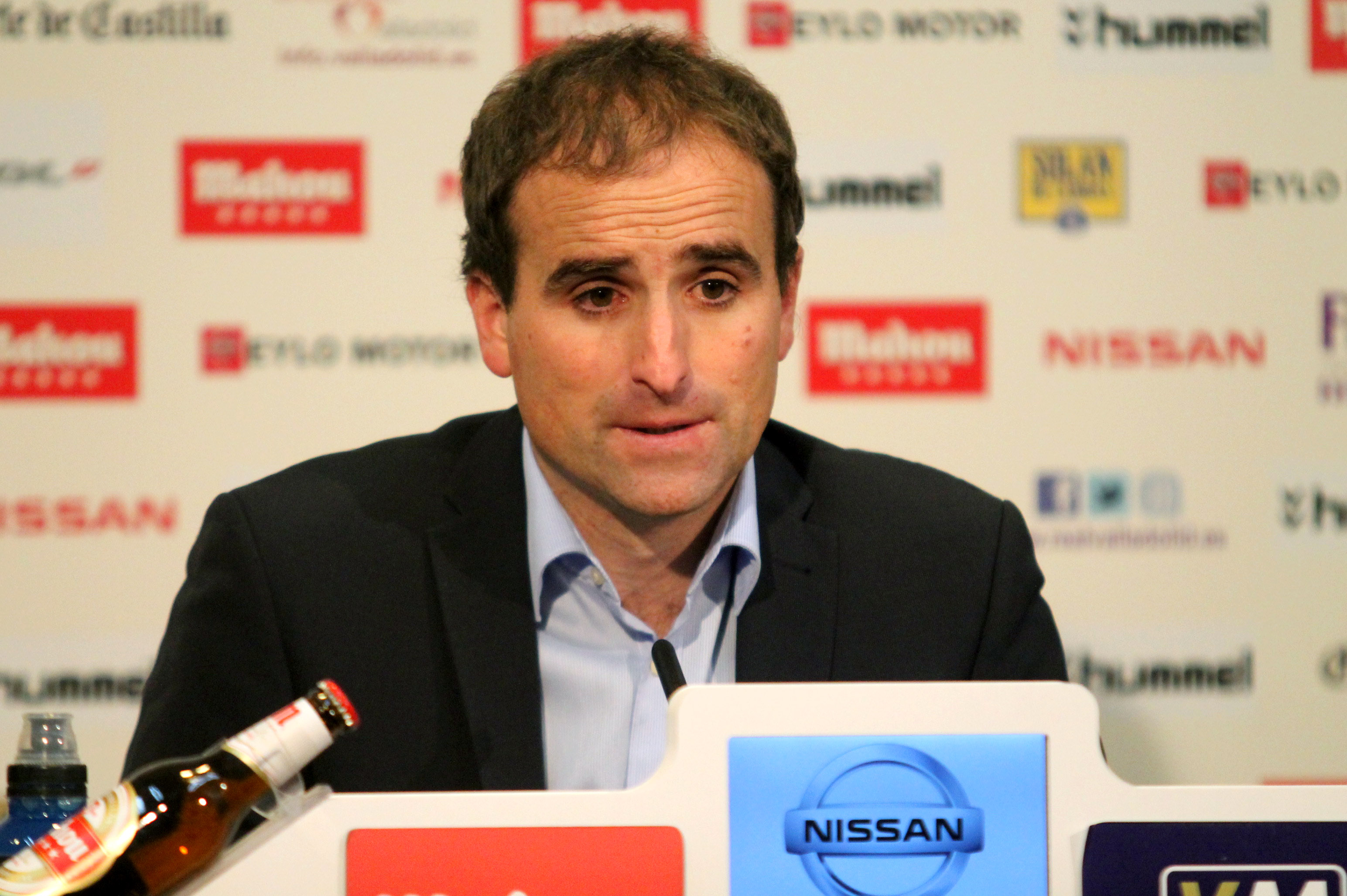 Jagoba Arrasate, Spanish football coach.